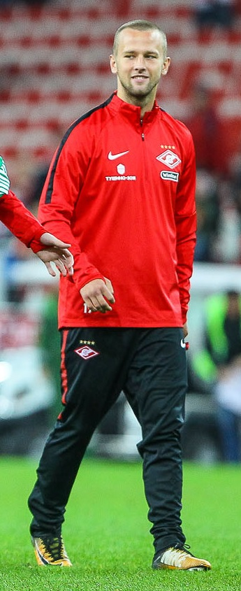 Konstantin Shcherbakov with FC Spartak Moscow after a game against FC Rubin Kazan.